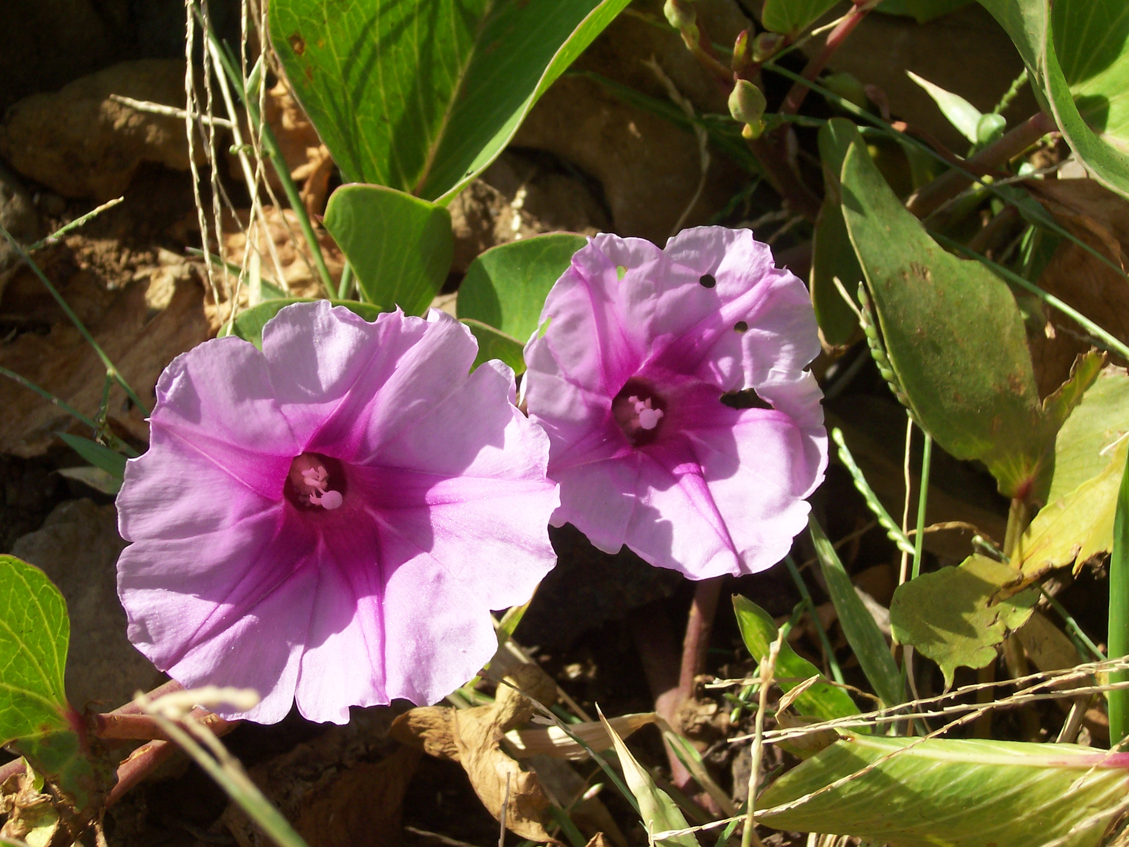 Ipomoea pes-caprae, on the pebble shore of Saint-Denis (Réunion)